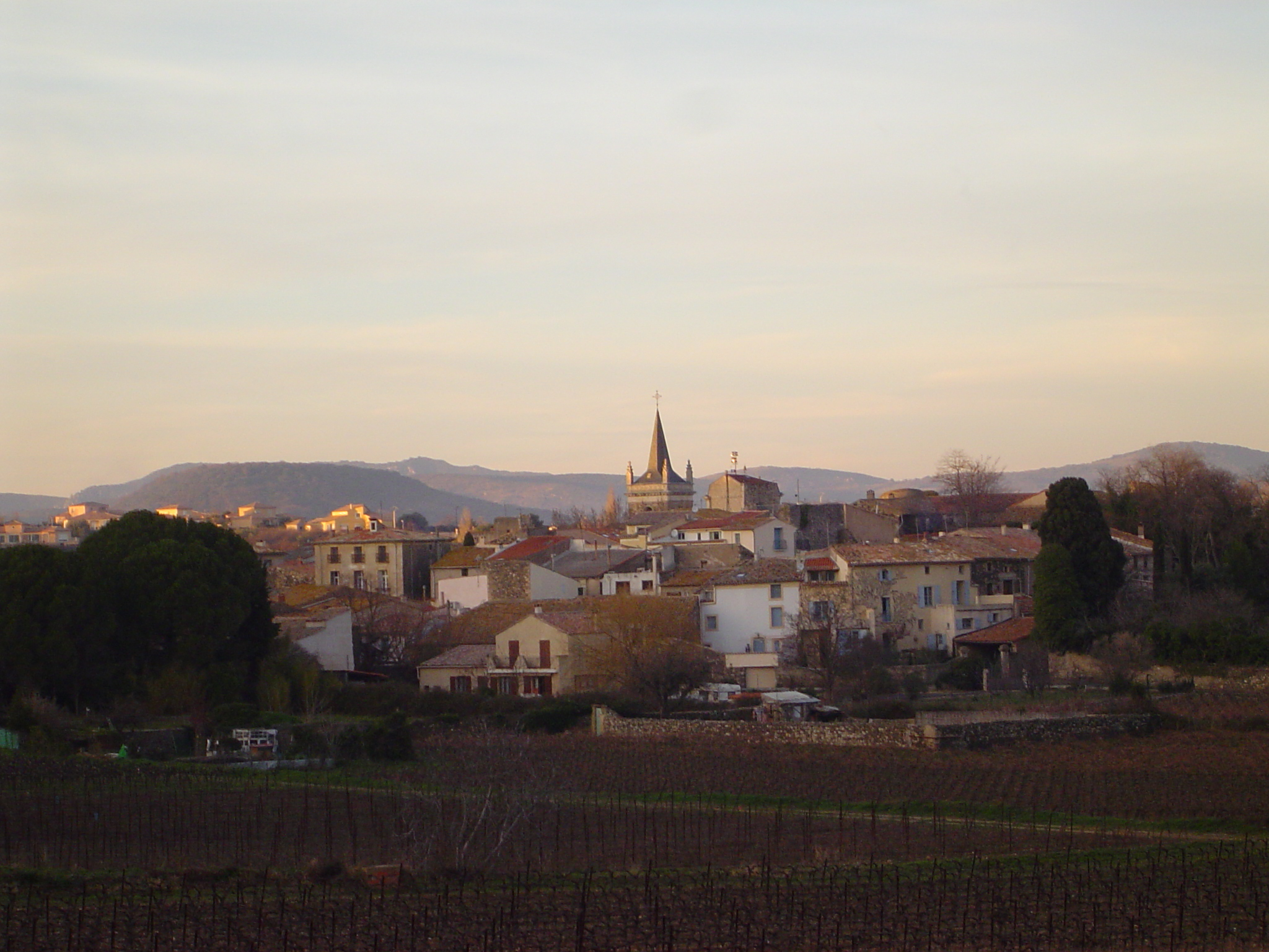 Village of Nizas, department of Harault, Languedoc, France. Picturesque view from the nearby hill on sunset